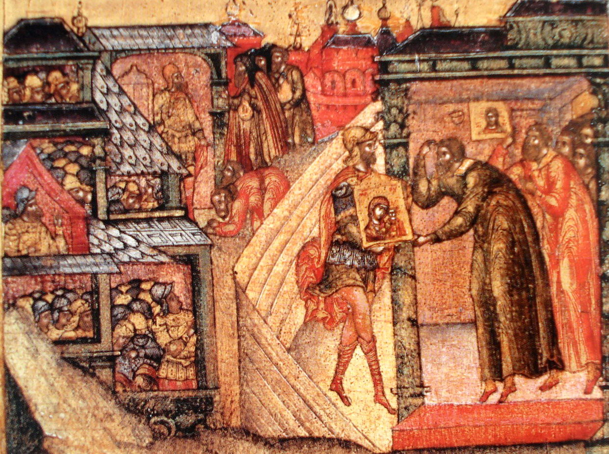 Yakov Lyubsky presenting the icon to Local Headman of Yaroslavl.